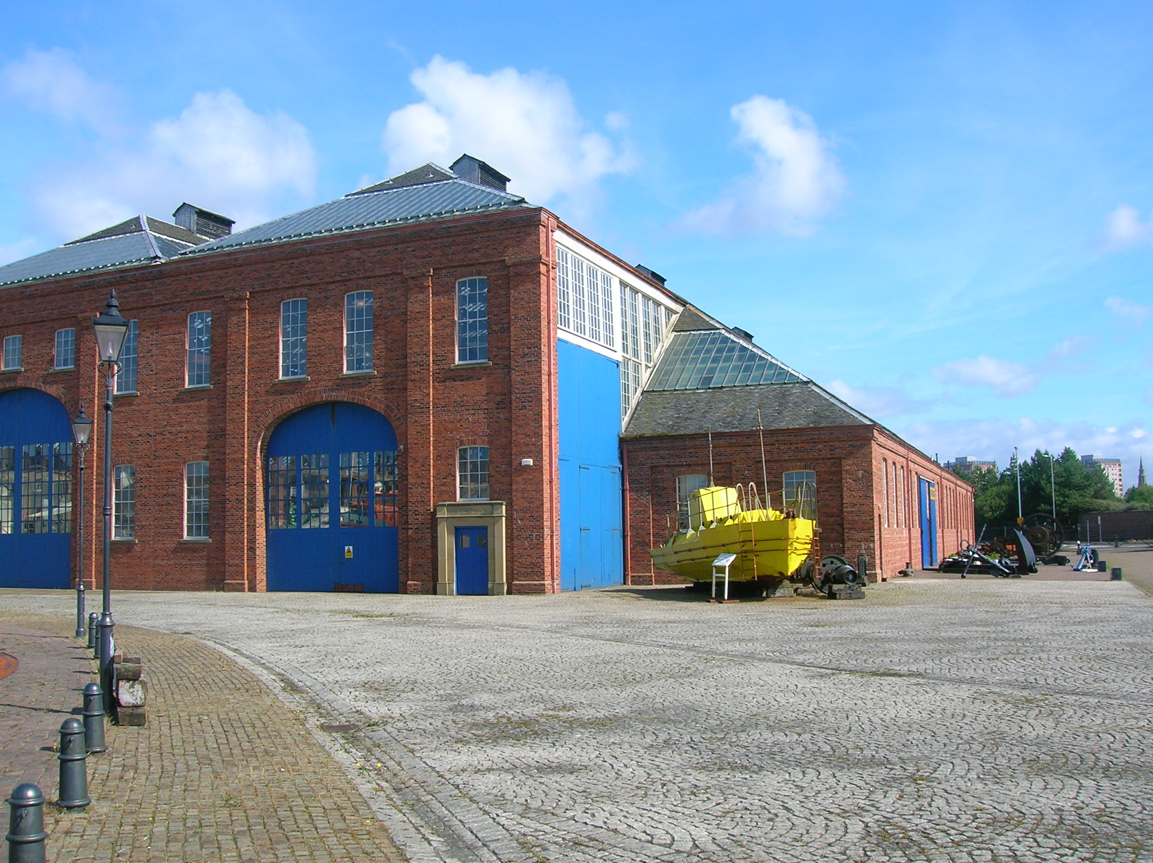 The Linthouse building at the Scottish Maritime Museum, Irvine, North Ayrshire, Scotland.Rosser 21:22, 26 August 2007 (UTC)